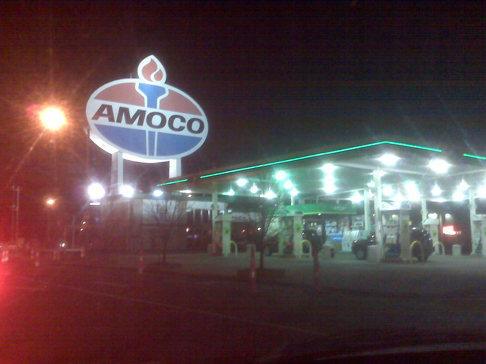 Sent via BlackBerry by AT&T